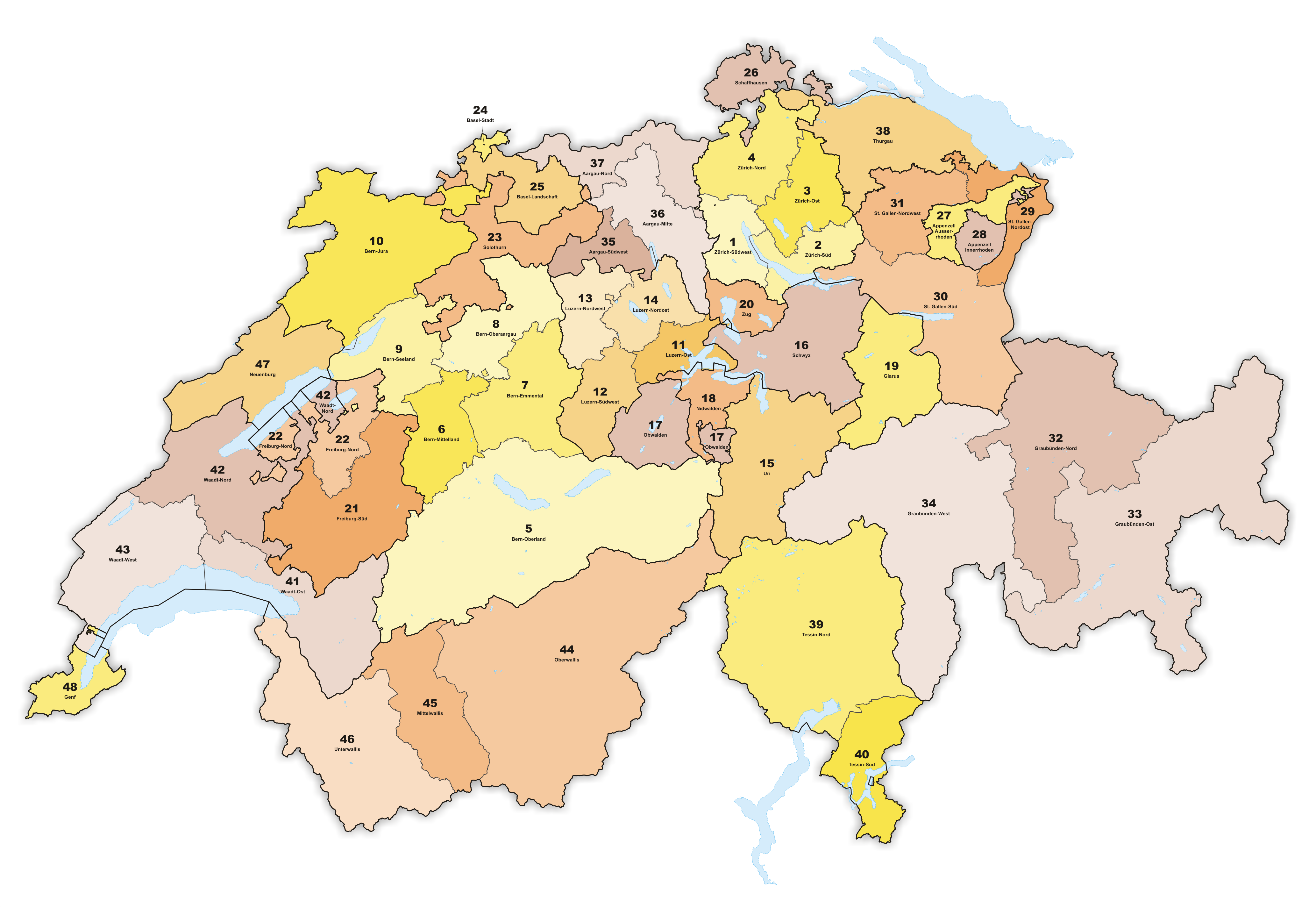 Swiss national council constituencies from 1872 to 1878